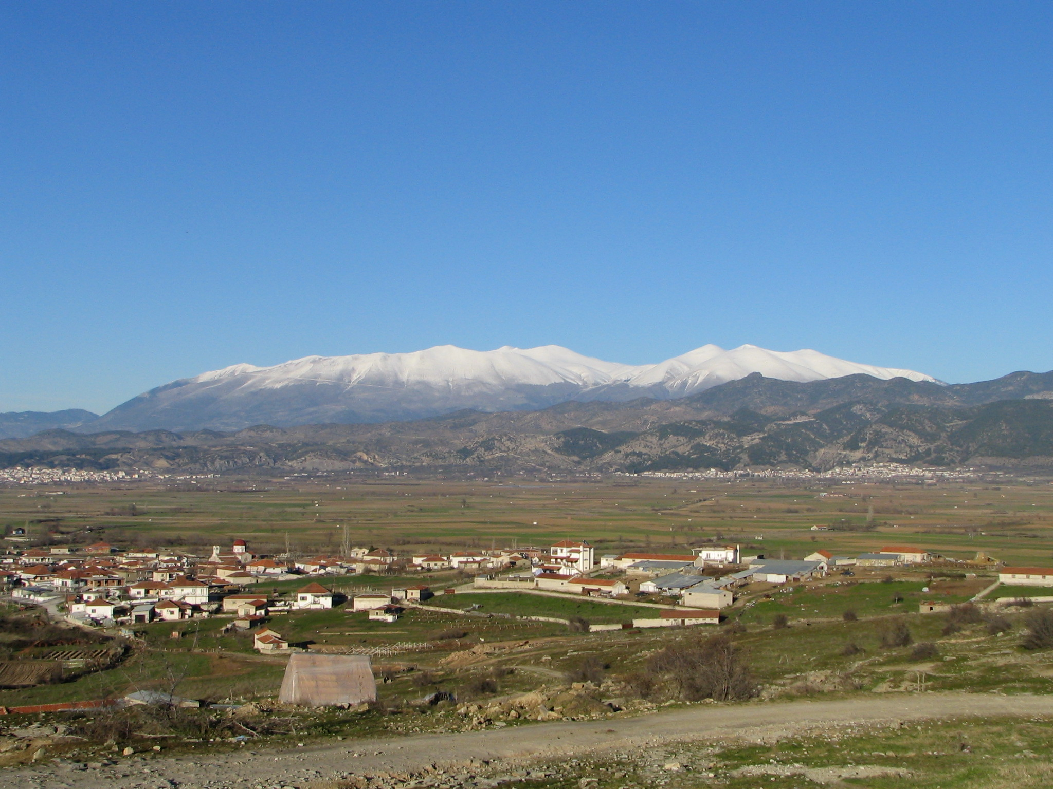 This is a view of Olimpos south side with Elasona and Tsaritsani